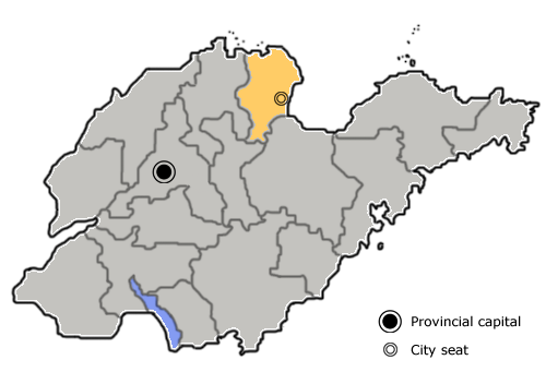 The prefecture-level city of Dongying is highlighted on this map of Shandong province, People's Republic of China.